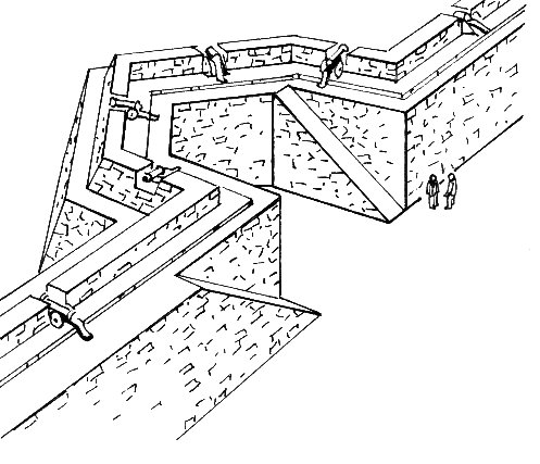 Line art drawing of a bastion.